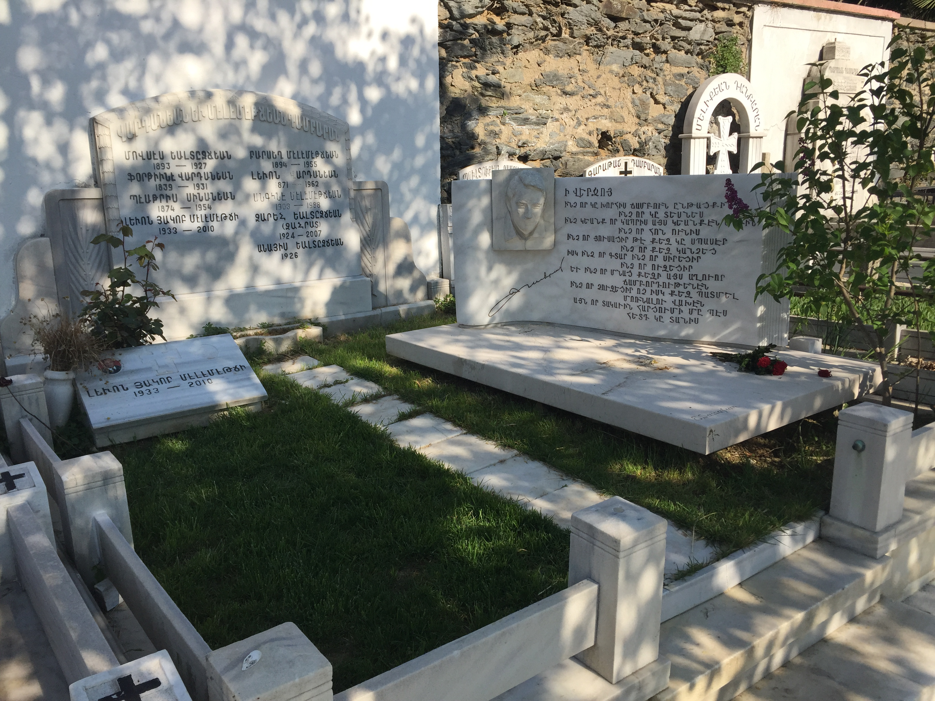 Zahrad's (Zareh Yaldizciyan) tomb at the Şişli Armenian Cemetery in Istanbul (Photo: Rupen Janbazian)